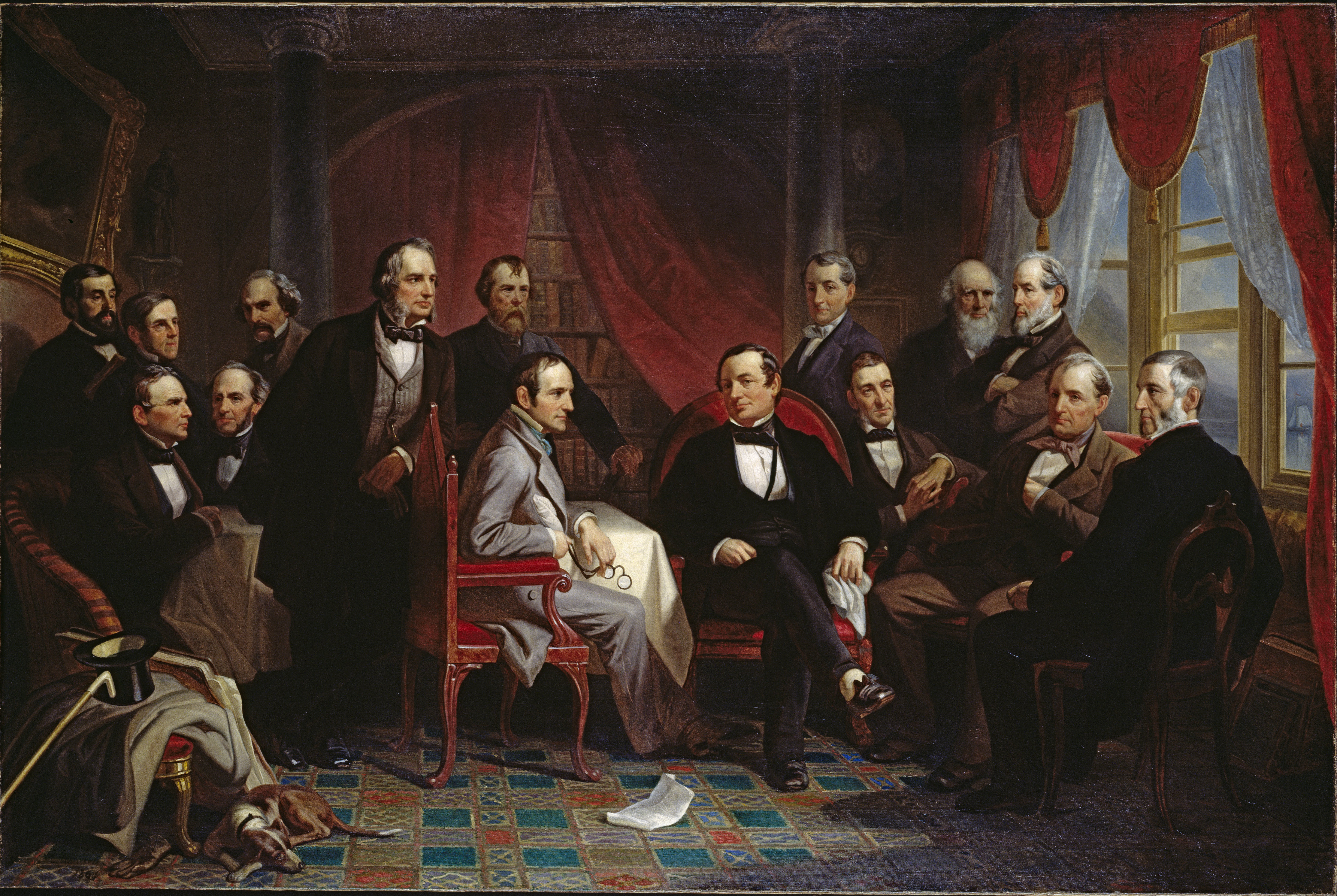 Oil on canvas painting entitled Washington Irving and his Literary Friends at Sunnyside; original size without frame 134.6×199.4 cm. From left to right: Henry T. Tuckerman (1813-1871), Oliver Wendell Holmes (1809-1894), William Gilmore Simms (1806-1870), Fitz-Greene Halleck (1790-1867), Nathaniel Hawthorne (1804-1864), Henry Wadsworth Longfellow (1807-1882), Nathaniel Parker Willis (1806-1867), William H. Prescott (1796-1859), Washington Irving, James Kirke Paulding (1778-1860), Ralph Waldo Emerson (1803-1882), William Cullen Bryant (1794-1878), John Pendleton Kennedy (1795-1870), James Fenimore Cooper (1789-1851), and George Bancroft (1800-1891).